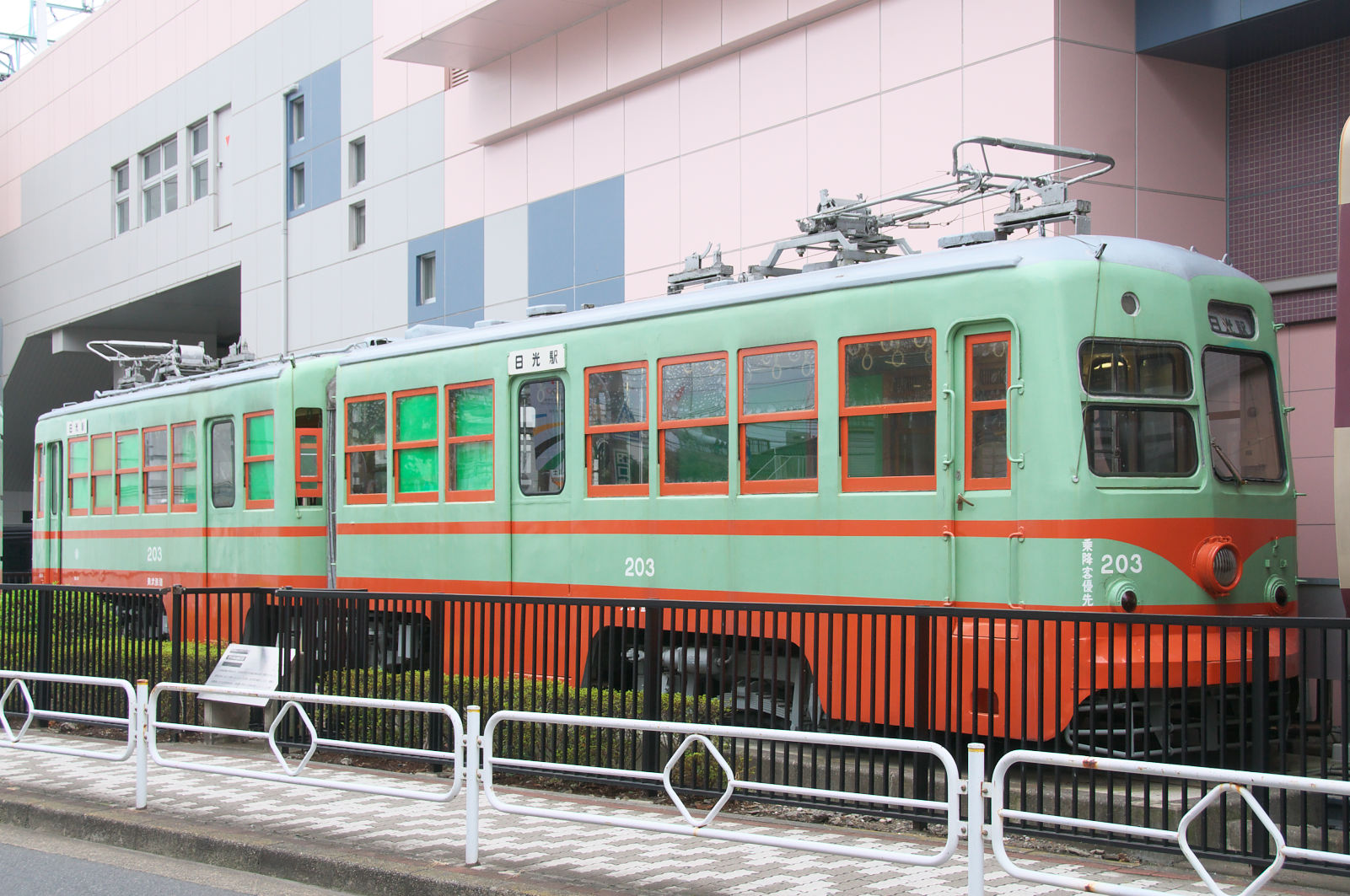 Tobu railway Nikko tram line 203 in Tobu museum.